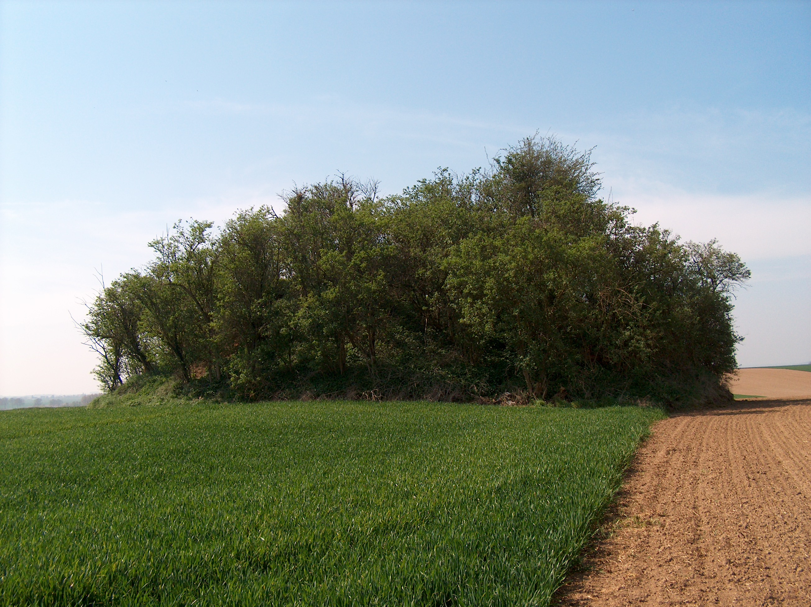 The Tumulus d'Avernas, Avernas-le-Bauduin, Liège, Belgium.